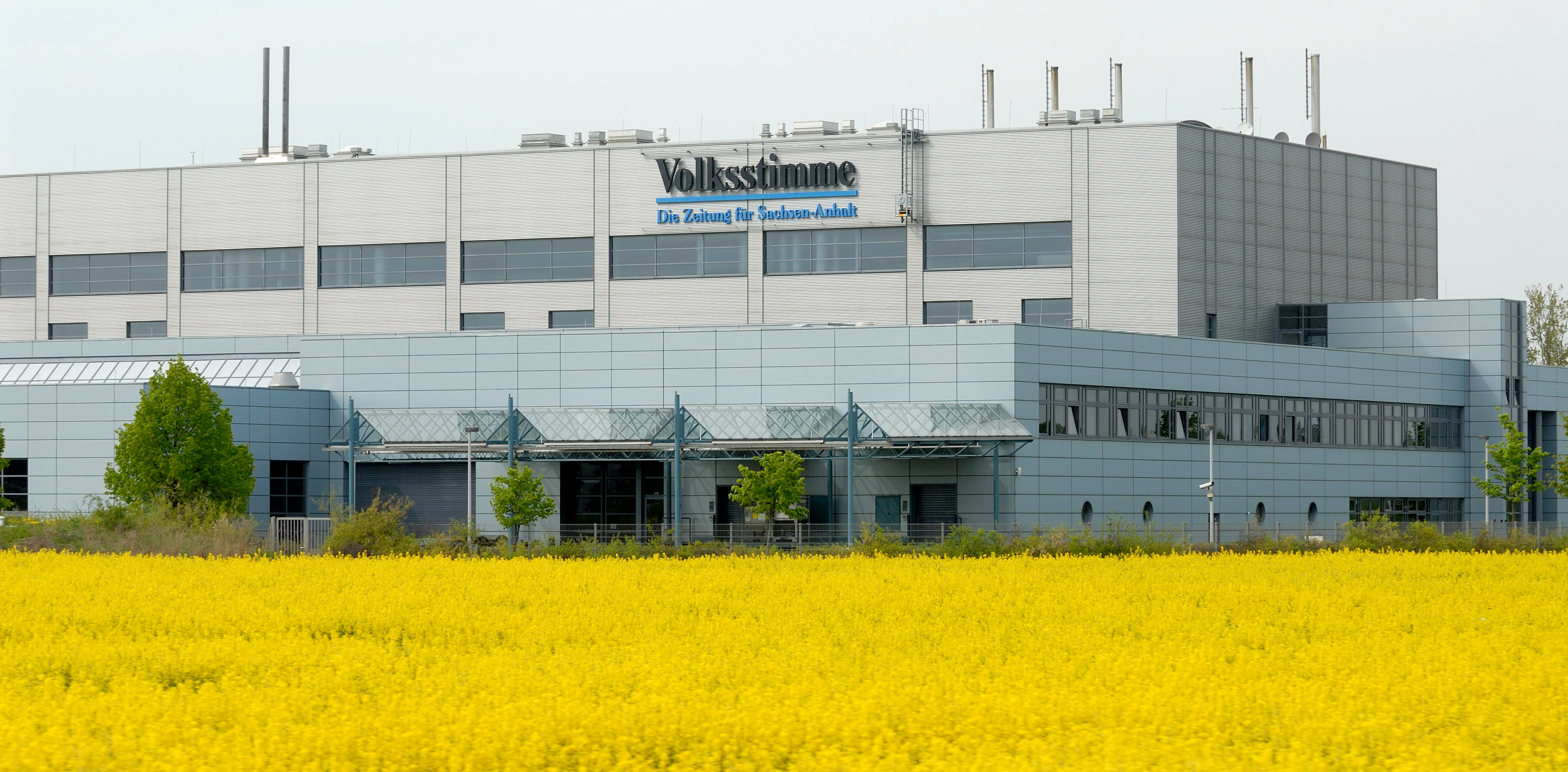 View of the Volksstimme newspaper building in Barleben from the A 2 highway. It contains the printing center and the editorship.